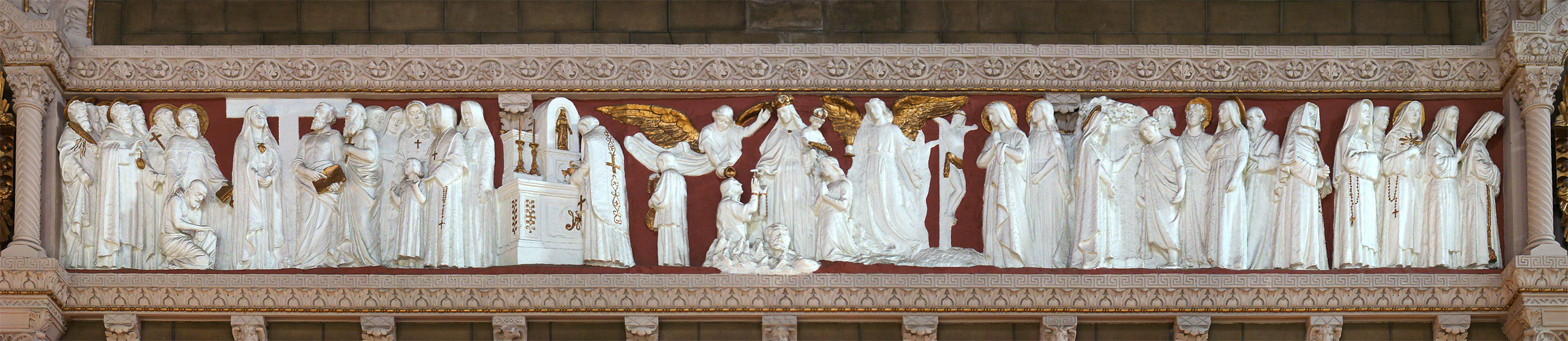 Church of Nativité-de-la-Sainte-Vierge-d’Hochelaga, Montreal, Quebec, Canada. The monumental frieze on the south side of the nave.